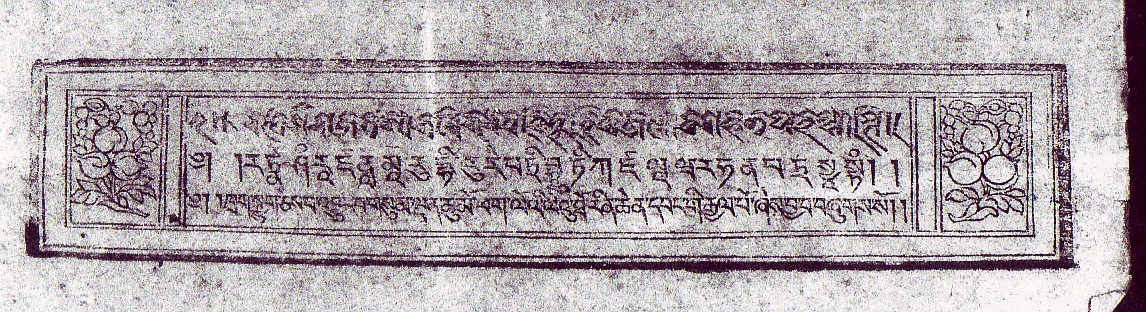 Title page of a Lhasa blockprint of a Tibetan Calender for the year "Water Pig" 1923/24